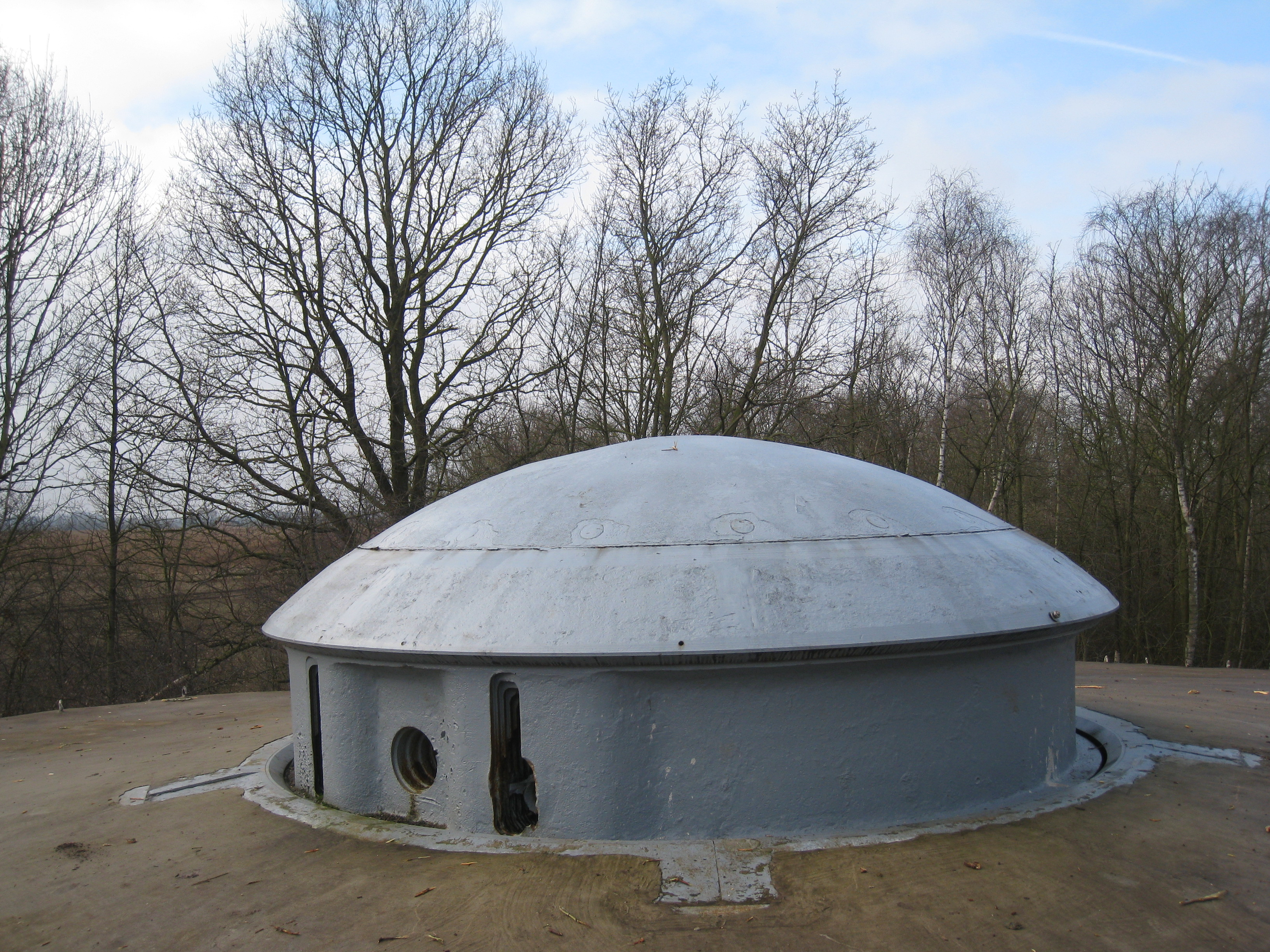 The Belgian fortress Eben-Emael. Retractable armored turret with two 75mm rapid-fire guns with 8km ranges.